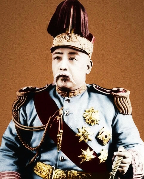 I re-design this picture from File:Yuan shikai.jpg